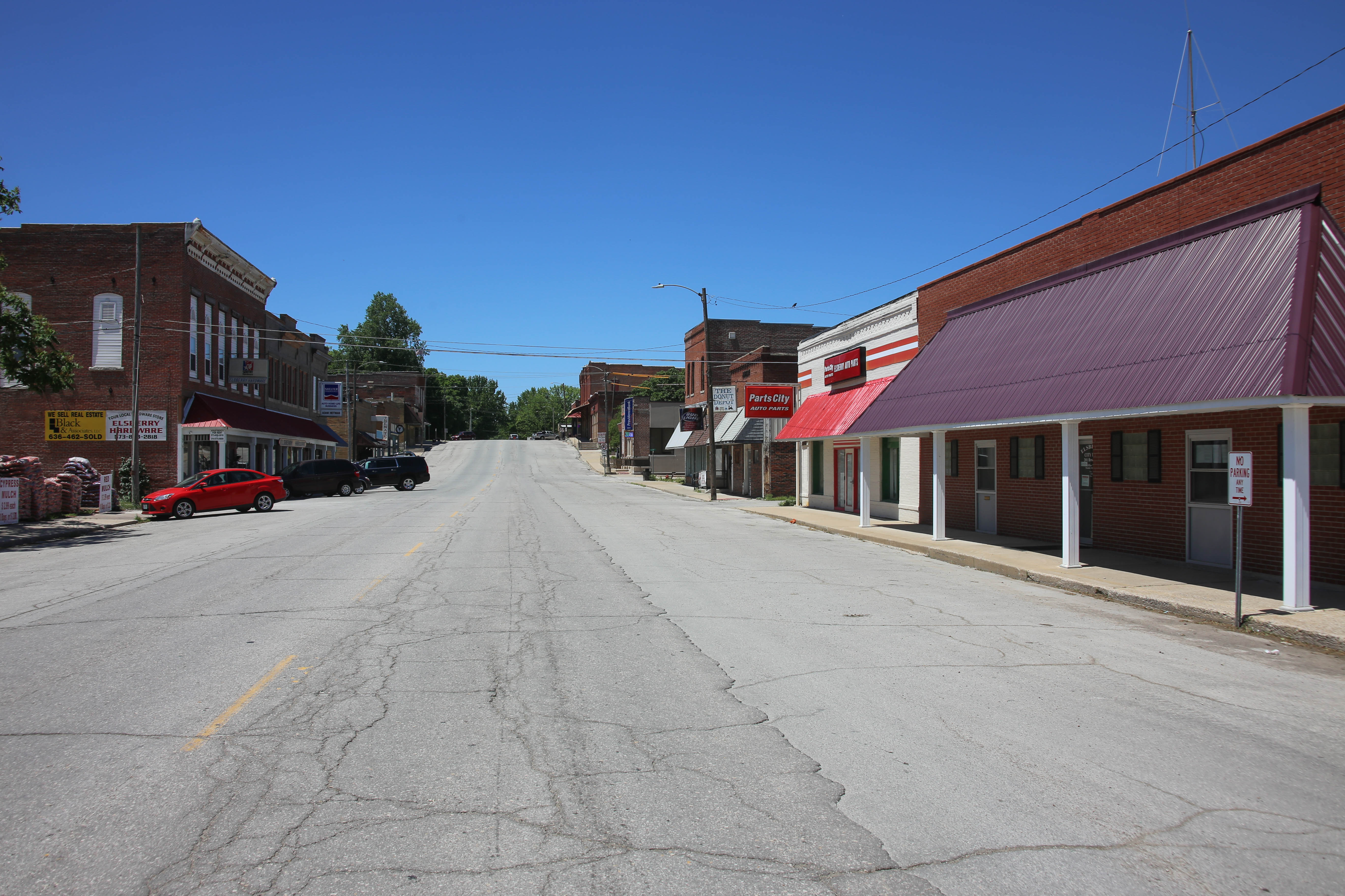 Elsberry, Missouri